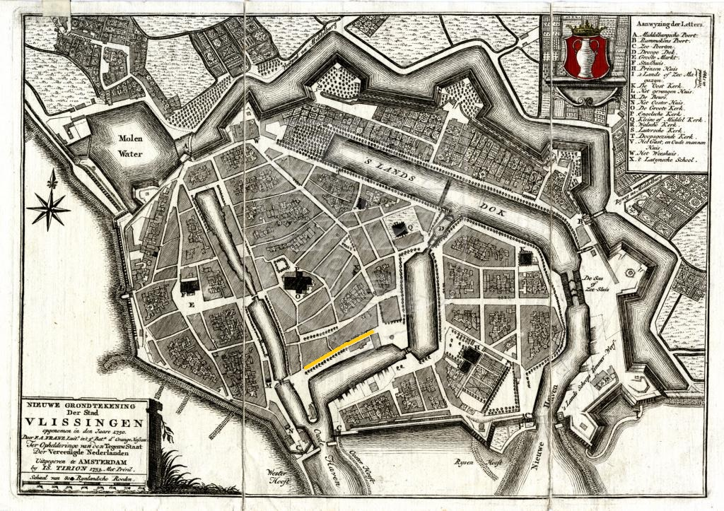 Vlissingen anno 1750